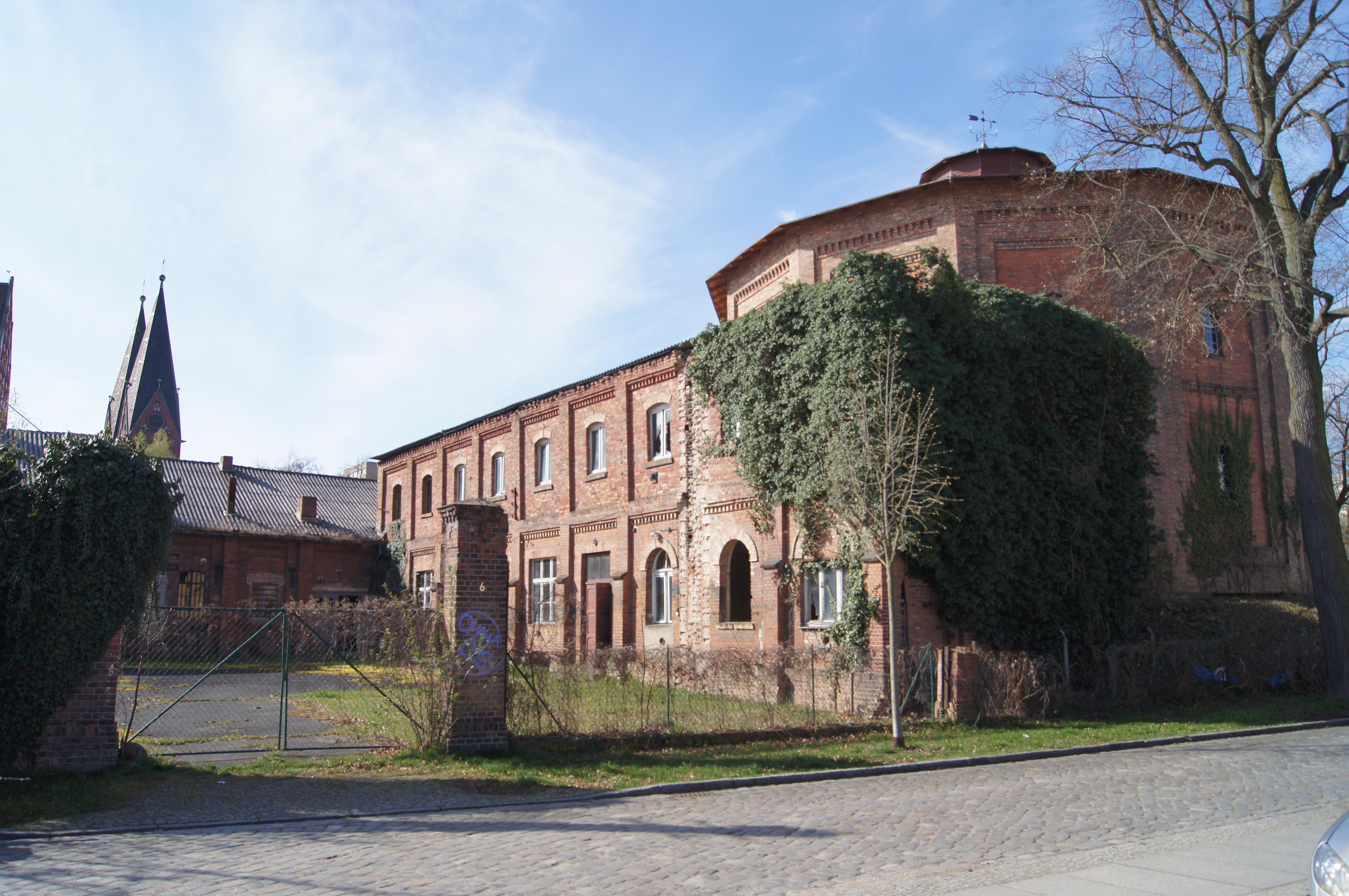 Old Gasworks Frankfurt (Oder), Brandenburg, Germany